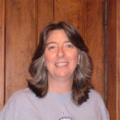 Photograph of folk musician and singer Debra Cowan taken on September 5, 2009. Copyleft: This work of art is free; you can redistribute it and/or modify it according to terms of the Free Art License. You will find a specimen of this license on the Copyleft Attitude site as well as on other sites.